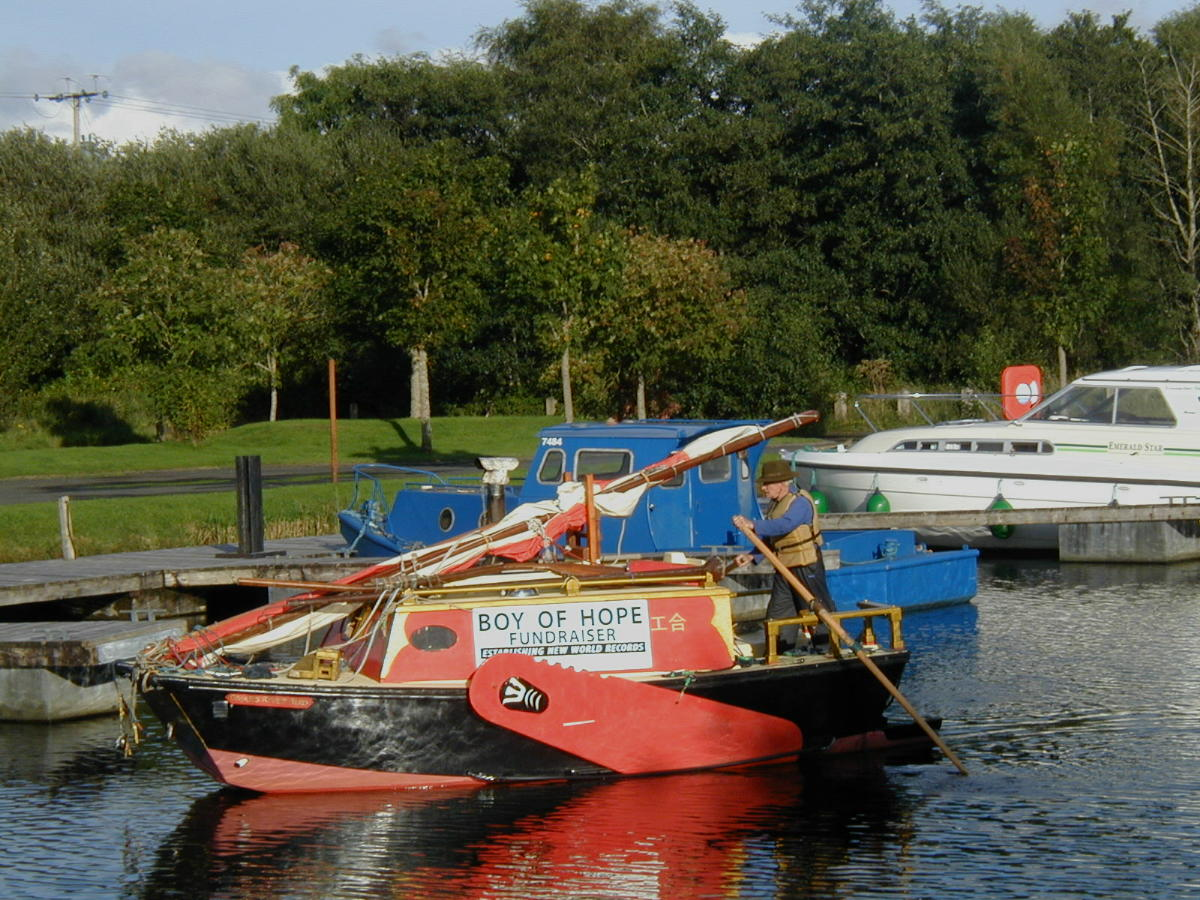 personal picture owned by Kerrin Attig taken by her father in 2009 and given to her. Emailed to me for use anywhere by anyone.